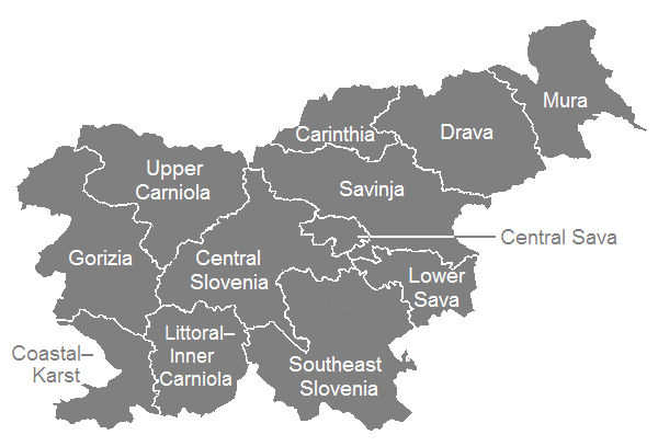 Statistical regions of Slovenia in English, adapted from the file Statistical regions of Slovenia.PNG (licensed under the Creative Commons Attribution-Share Alike 3.0 Unported license and licensed under the Creative Commons Attribution 2.5 Generic license)